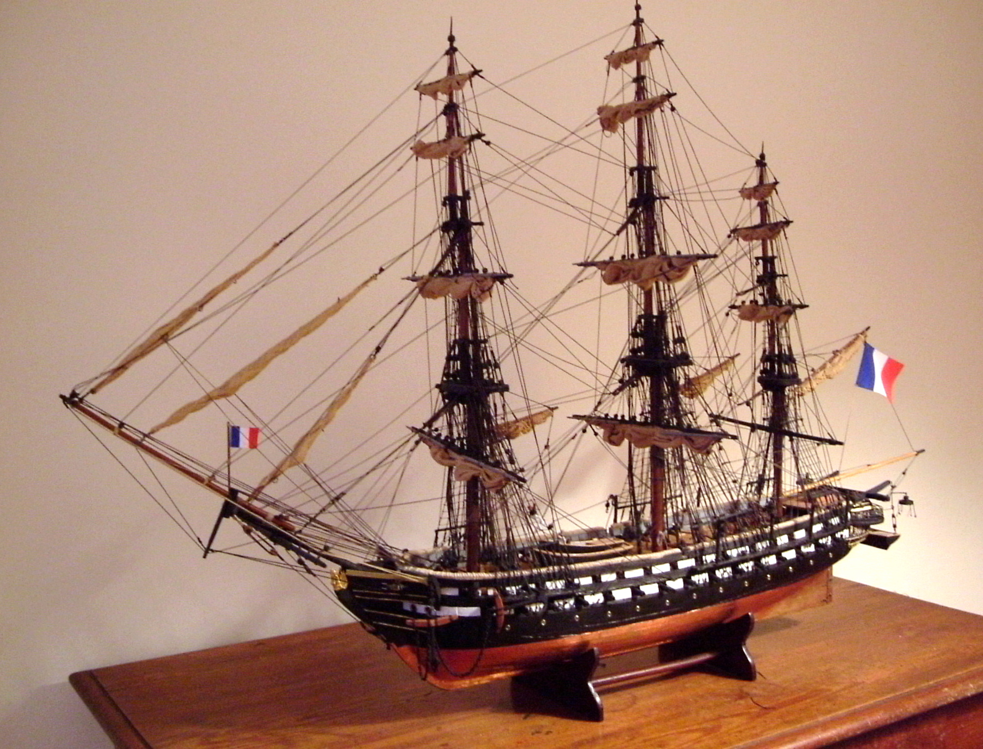 Model of the French Frigate La Belle Poule -1828